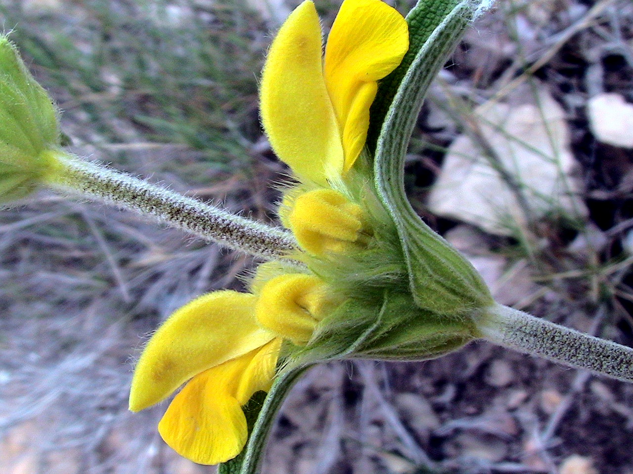 Phlomis lychnitis. In Camarasa (Noguera- Catalunya). To 790 m. altitude